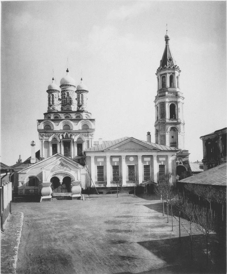 Saint Nicholas Church on Bersenevka Street (Moscow)